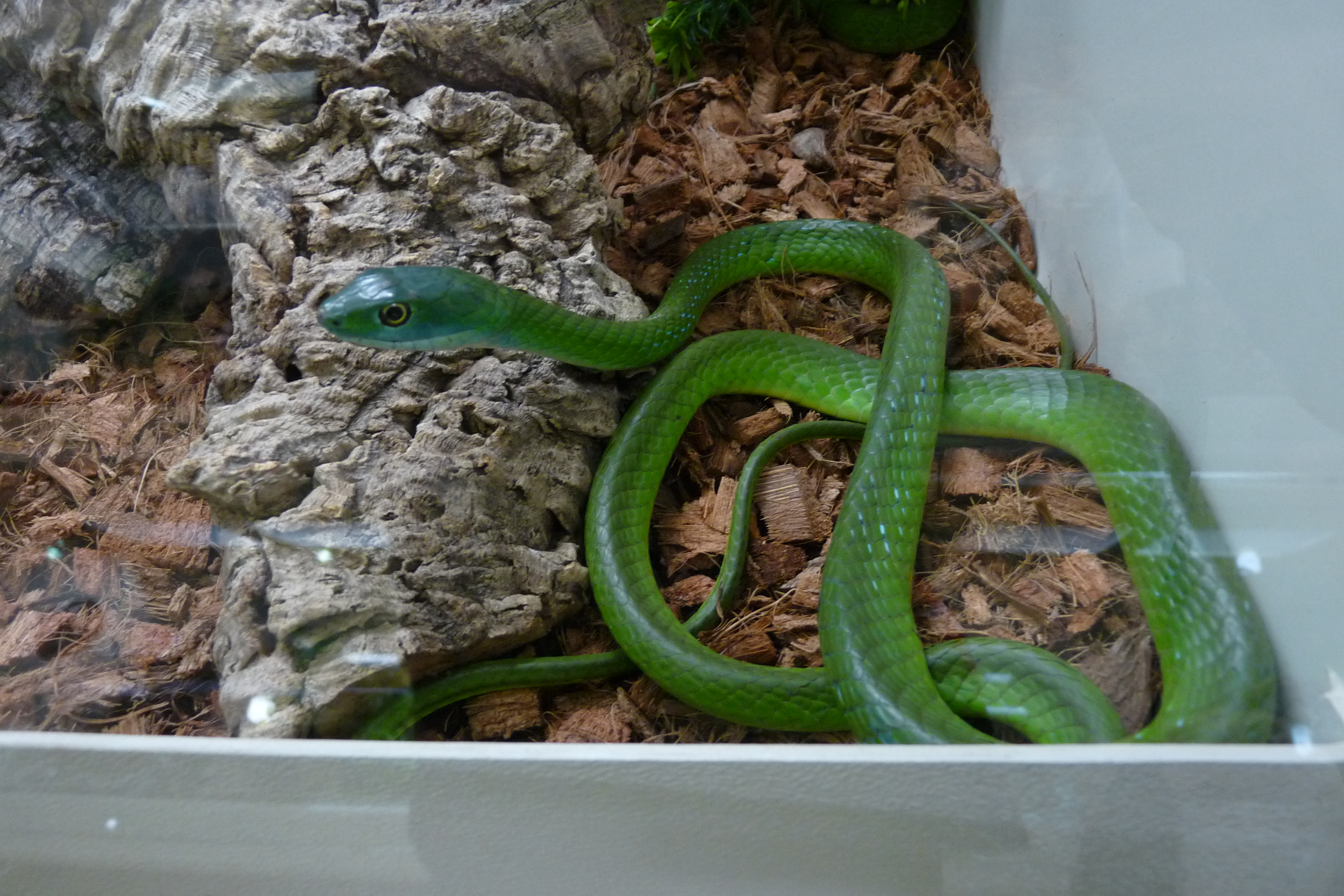 Philothamnus semivariegatus in captivity